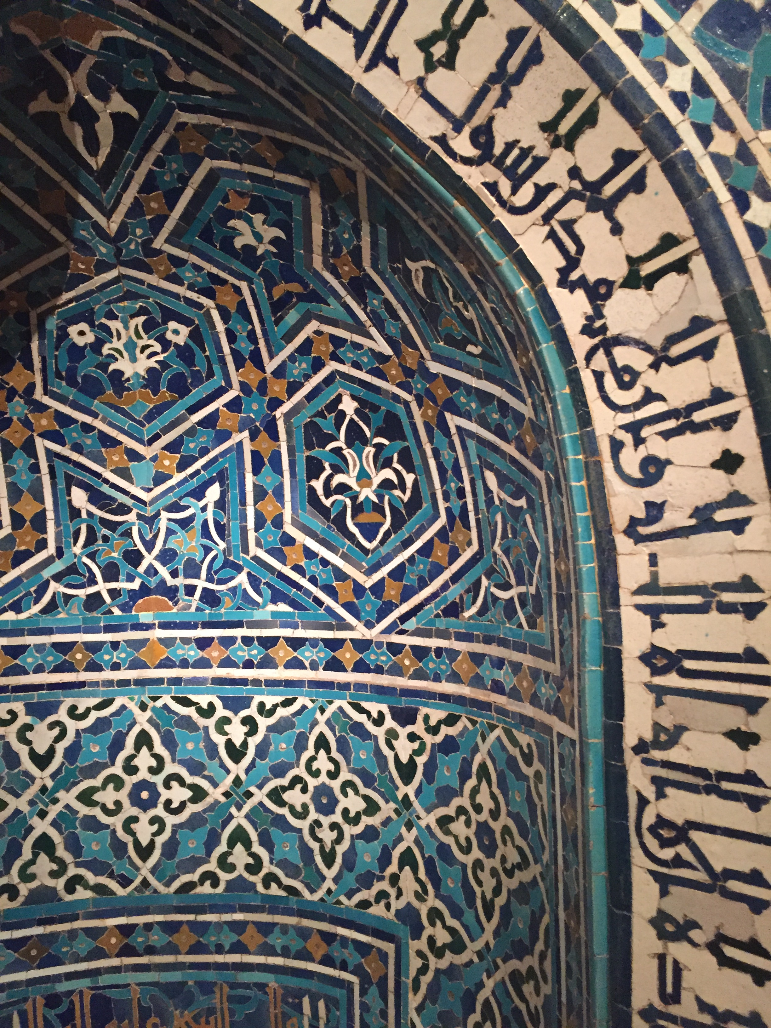 A close up to the Arabic inscription on the frame of the Mihrab in Kufic script.